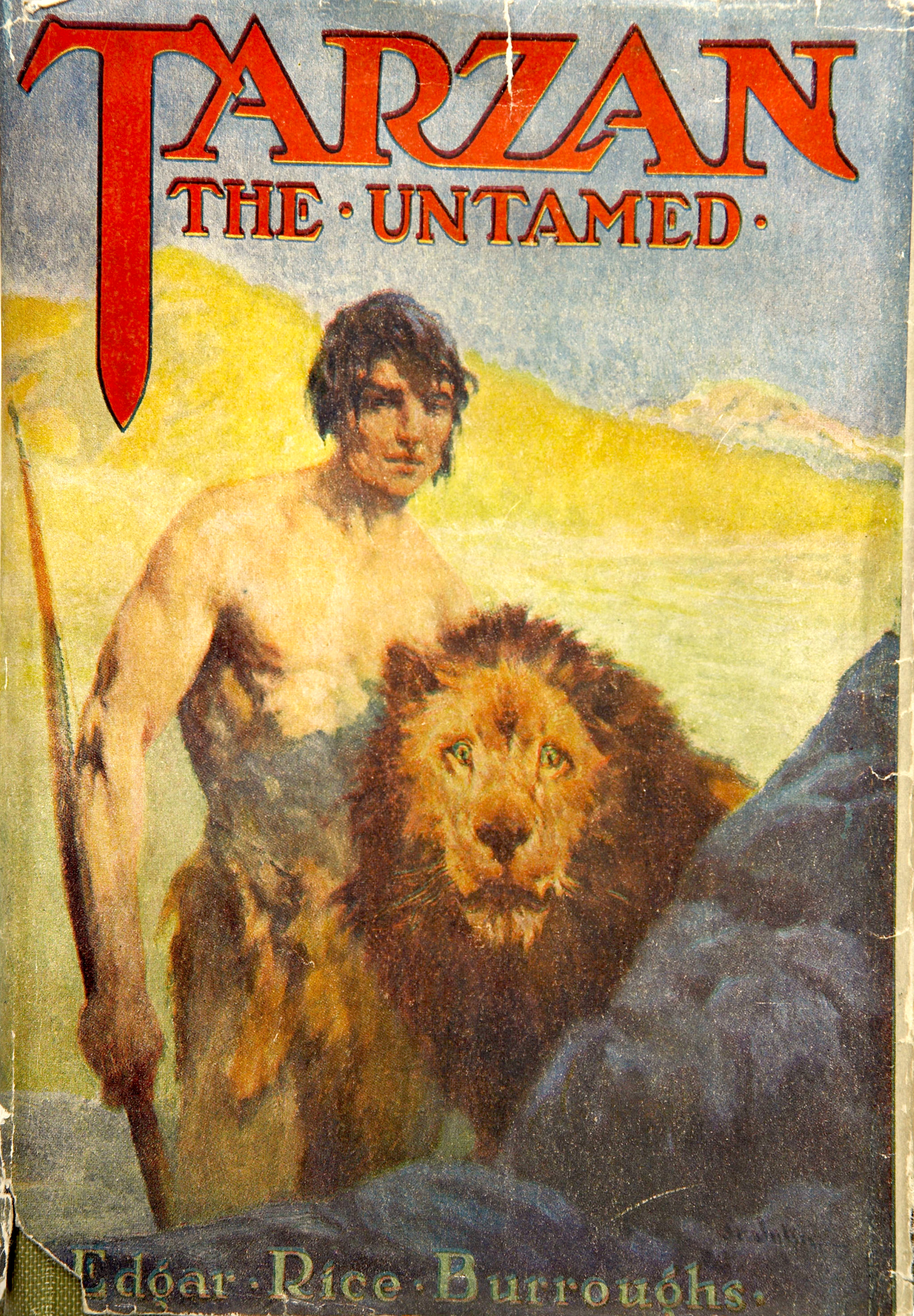 Cover art from Tarzan the Untamed by Edgar Rice Burroughs, McClurg, 1920.